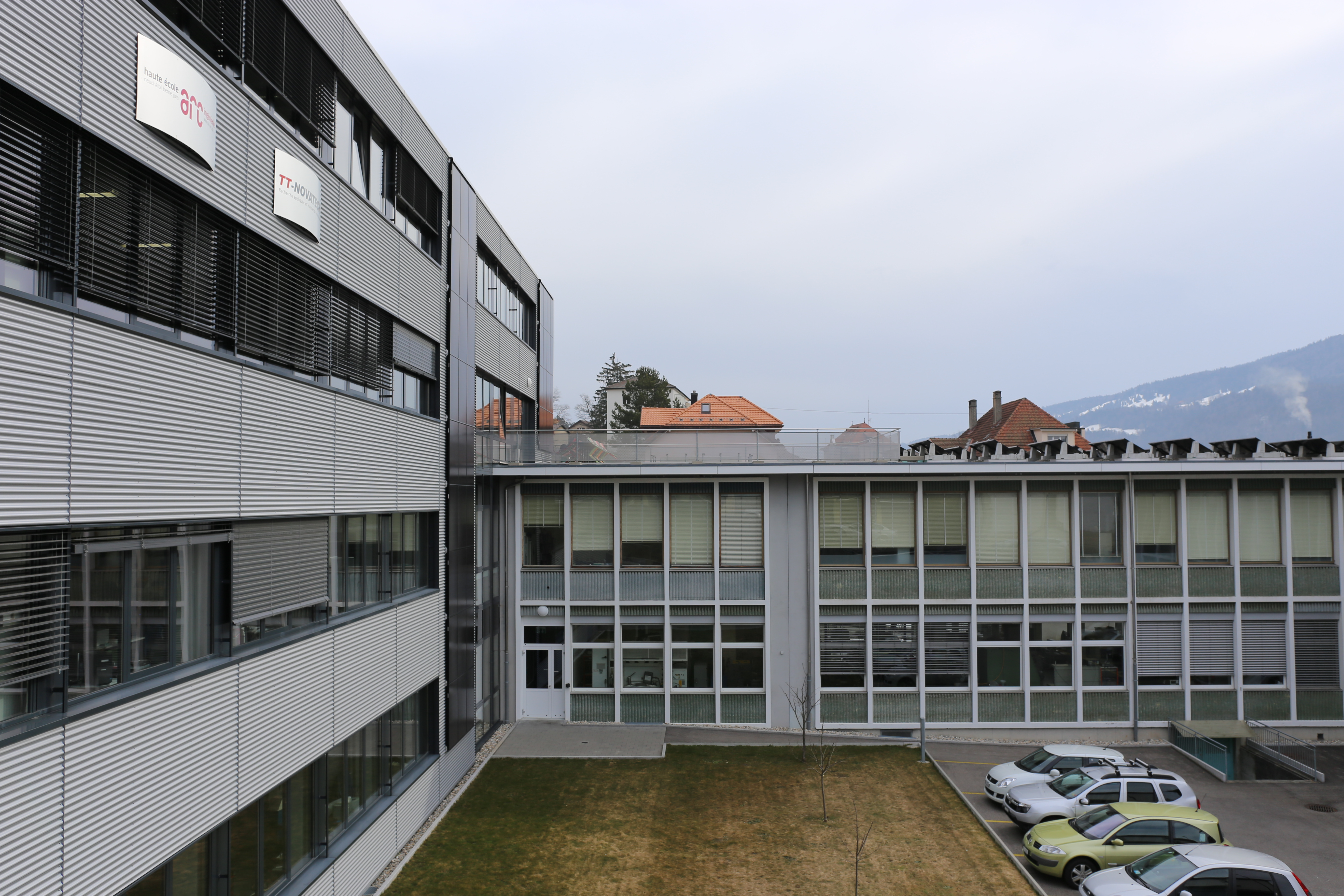 Building of HE-Arc in Saint-Imier